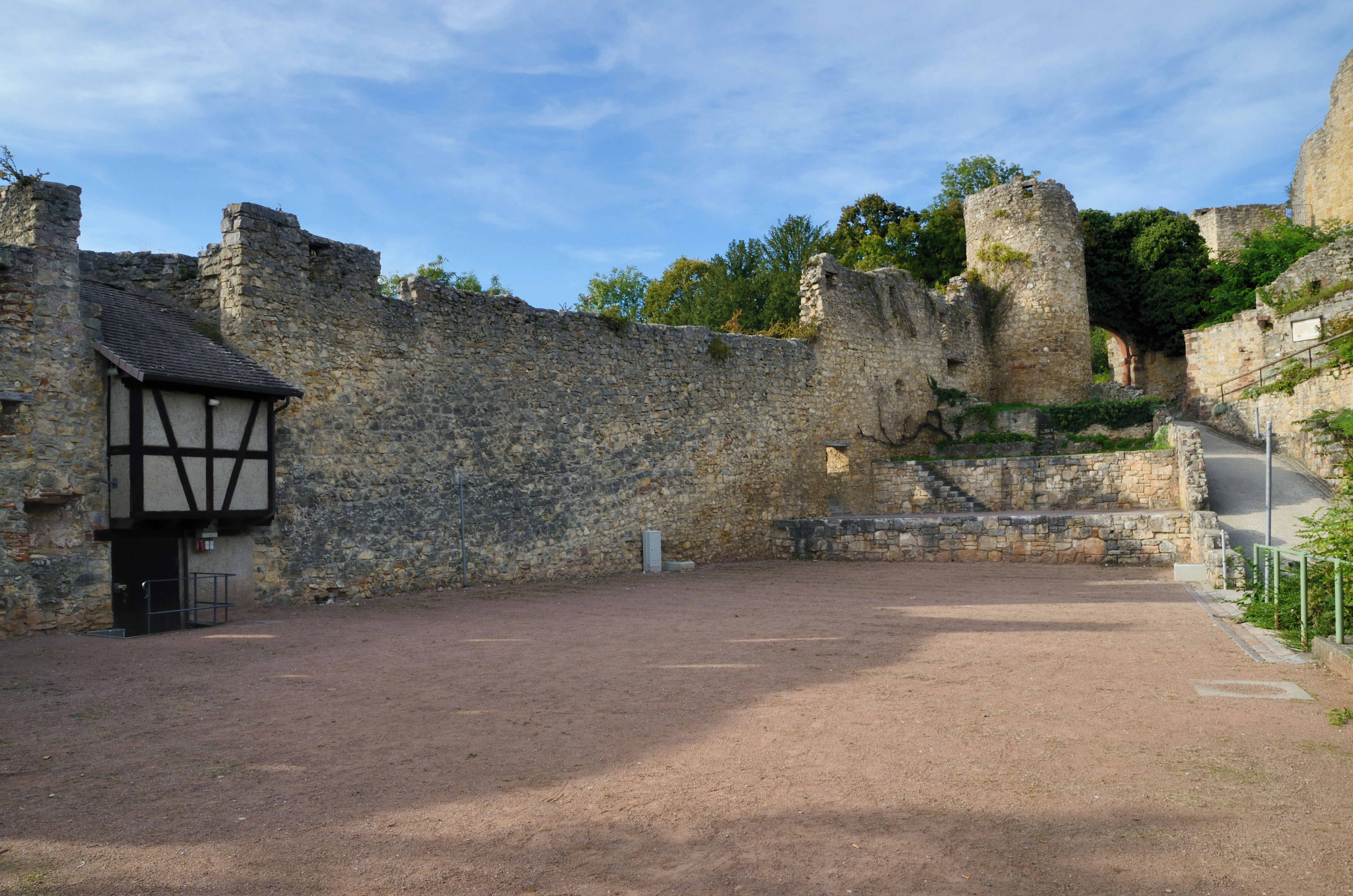 Rötteln Castle: theatre area of open air festival "Burgfestspiele"